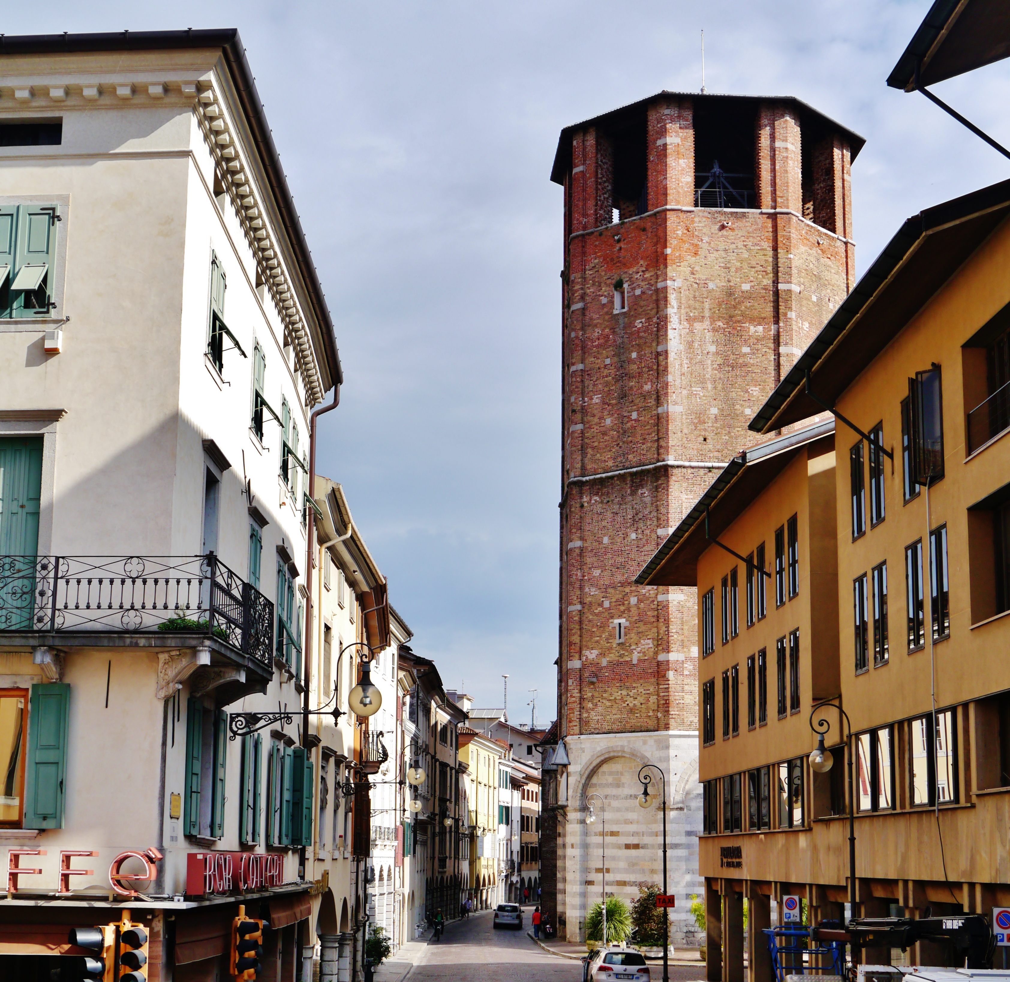 Cathedral Tower, Udine, Friuli-Venezia Giulia, Italy